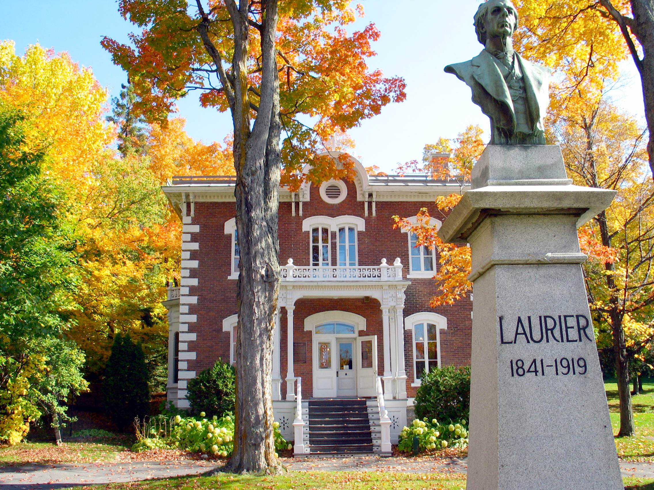 The Laurier Museum